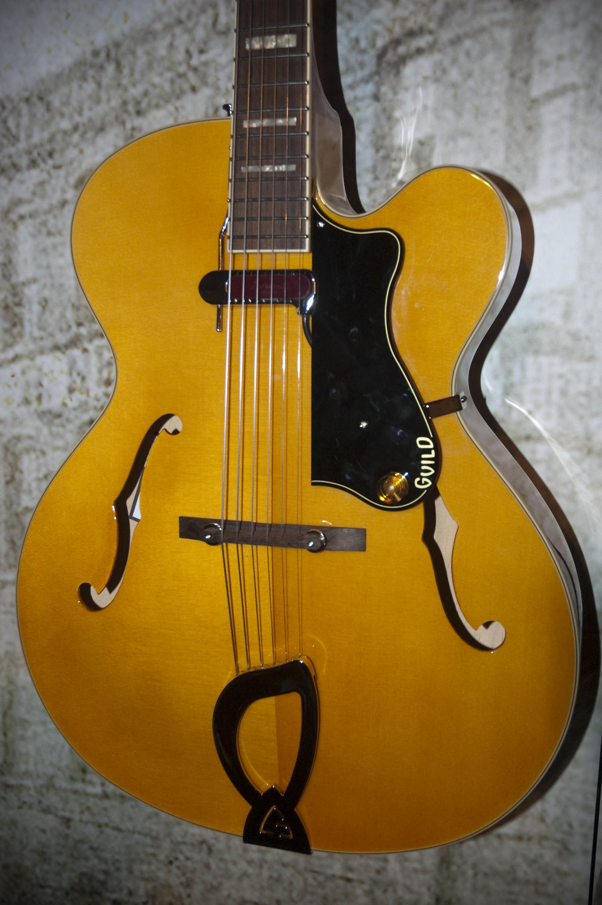 New Guild models Newark St.™ Collection A-150 Savoy (Blonde)